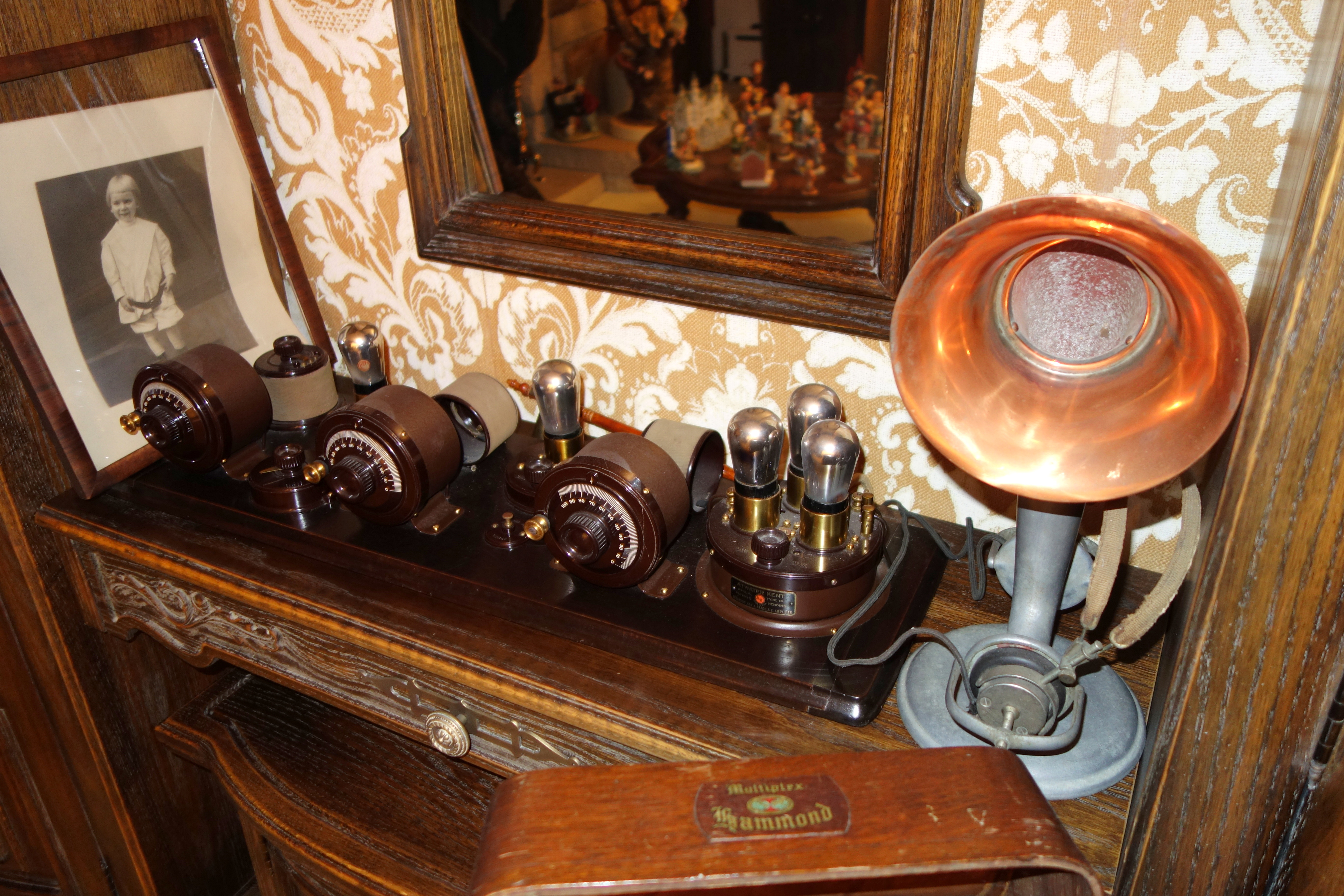 An antique vacuum tube radio receiver made by Atwater Kent in the 1920s. Atwater Kent's radios are distinctive because they didn't conceal the parts in a cabinet but instead mounted the parts on a breadboard where they could be seen. This was an Atwater Kent Type TA detector and 2 stage AF amplifier It was a five tube tuned radio frequency (TRF) receiver, with two stages of tuned radio frequency amplification, a grid-leak detector tube, and two stages of audio amplification. The three dials are the three tuning capacitors. Each had to be tuned separately to a new station, making tuning complicated. The three interstage coupling transformers (grey cylinders) are also visible. The horn loudspeaker (right) is driven by a pair of earphones, a common arrangement in the 1920s which was cheaper than a separate speaker. Exhibit in the Bayernhof Museum, 225 St. Charles Place, O'Hara Township, Pittsburgh, Pennsylvania, USA.